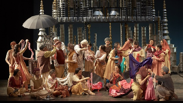 Lakmé Leo Delibes opera en trois actes Production Opéra Comique 2017 Photo: Pierre Grosbois ( livret d'Edmond Gondinet et Philippe Gille direction musicale Francois-Xavier Roth mise en scene Lilo Baur decors Caroline Ginet costumes Hanna Sjoedin lumieres Gilles Gentner choregraphie Olia Lydaki assistant musical Nicolas Simon assistant mise en scene Katia Flouest-Sell assistante decors Claire Puyenchet assistante costumes Camille Lamy chef de chant Mathieu Pordoy chef de choeur Christophe Grapperon Lakme Sabine Devieilhe Gerald Frederic Antoun Mallika Elodie Mechain Nilakantha Paul Gay Frederic Jean-Sebastien Bou Ellen Marion Tassou* Rose Roxane Chalard* Mistress Bentson Hanna Schaer Hadji Antoine Normand Un Domben Laurent Deleuil* Un marchand chinois David Lefort Le Kouravar Jean-Christophe Jacques danseurs Mai Ishiwata, Olia Lydaki, Anna Dimitratou figurants Benoit Michaud, Tewfik Snoussi, Guillaume Toucas choeur accentus orchestre Les Siecles coproduction Opera Comique, Opera de Lausanne partenaires associes Palazzetto Bru Zane - Centre de musique romantique francaise chanteurs et chanteuses de l'Academie de l'Opera Comique